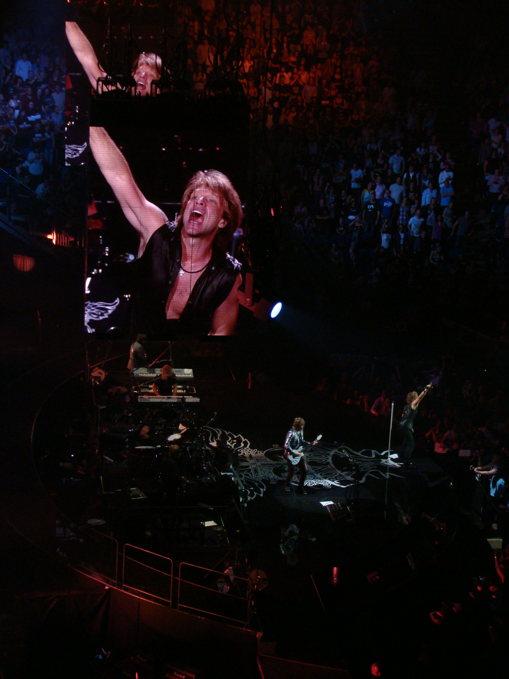 Bon Jovi on stage at the O2 Arena during The Circle tour in June 2010.